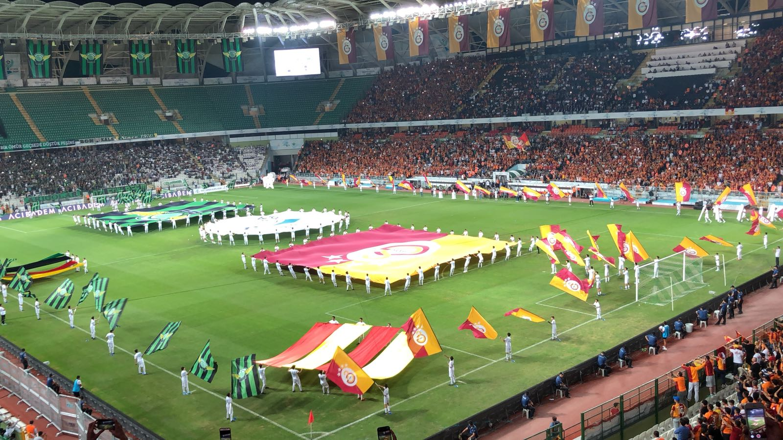 Akhisar Belediyespor vs Galatasaray, 5 August 2018 (2018 Turkey Super Cup)